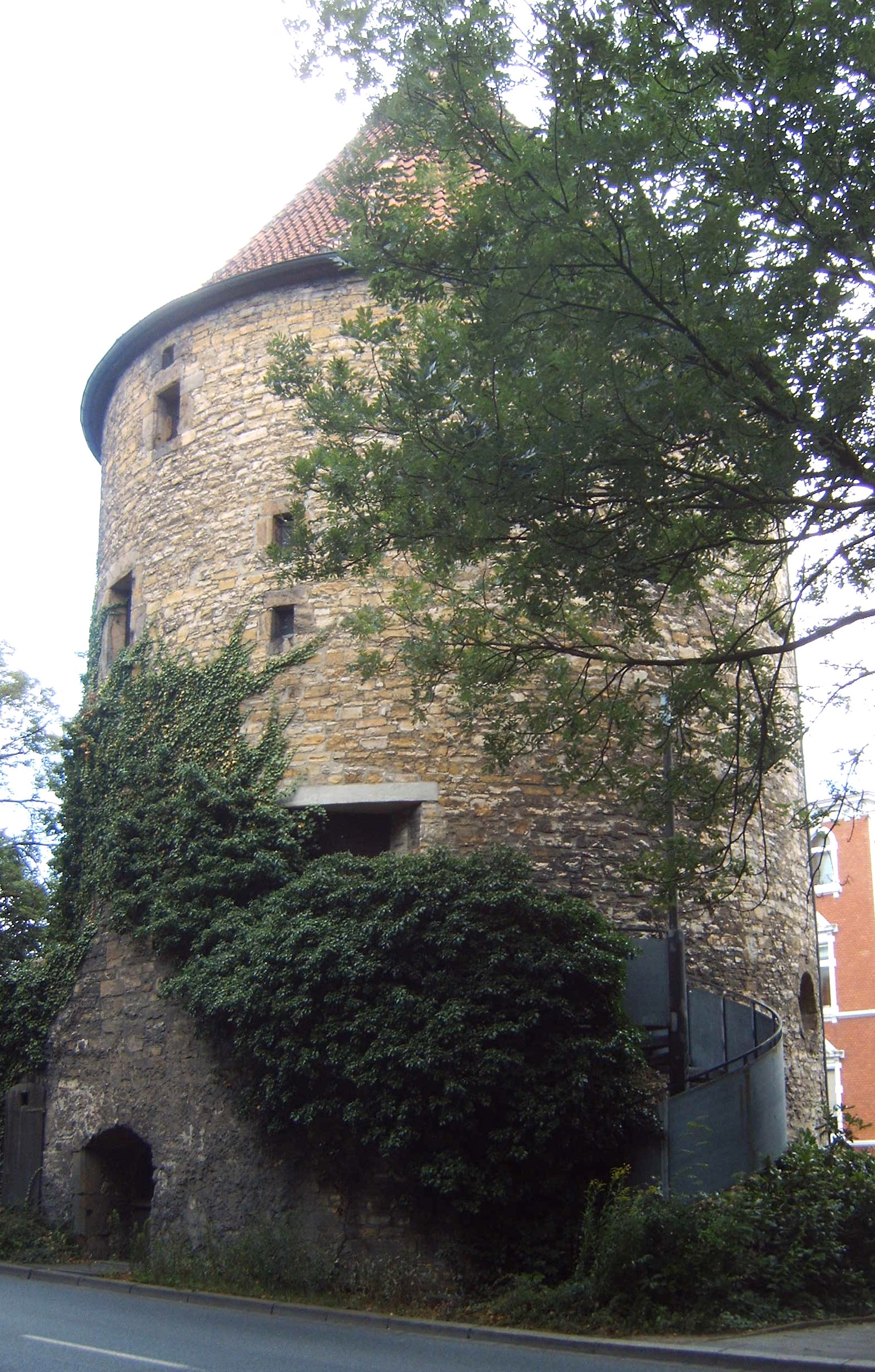 So-called Bürgergehorsam-Tower (a former city-prison) in Osnabrück, Germany